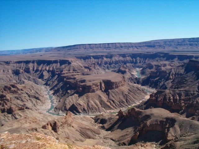 Fish River Canyon, Namibia Jamie Macdonald, feel free to use "this" image how ever you want